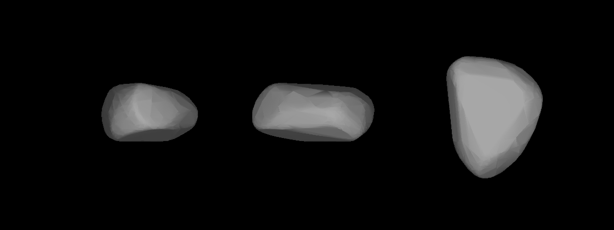 A three-dimensional model of 720 Bohlinia that was computed using light curve inversion techniques.